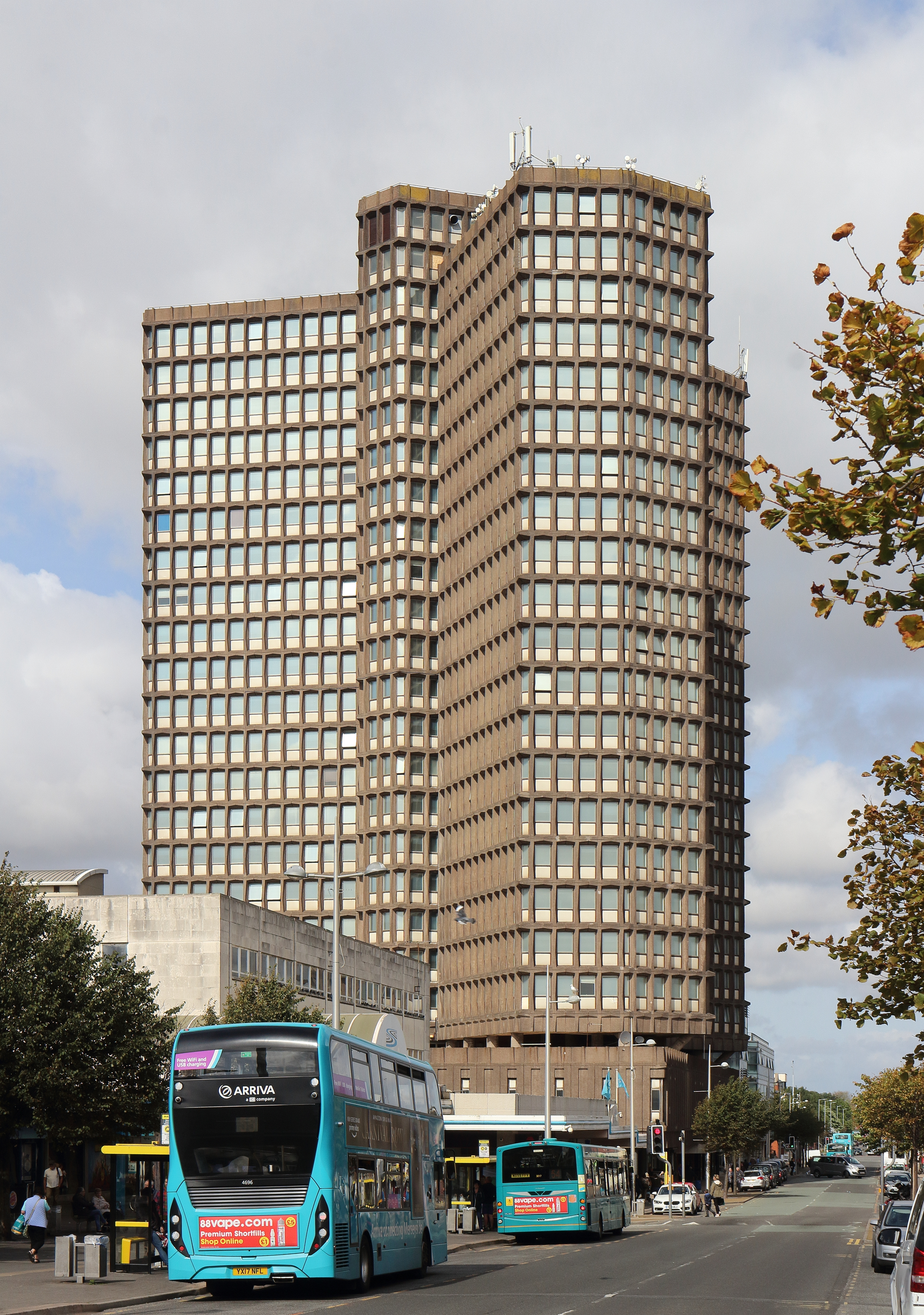 Triad building seen from Stanley Road opposite the Strand Shopping Centre.